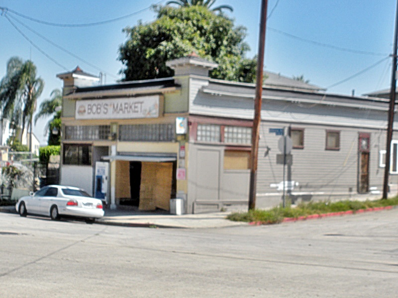 Bob's Market in Angelino Heights, Los Angeles. Built in 1910, the wooden building is a Los Angeles Historic-Cultural Monument.